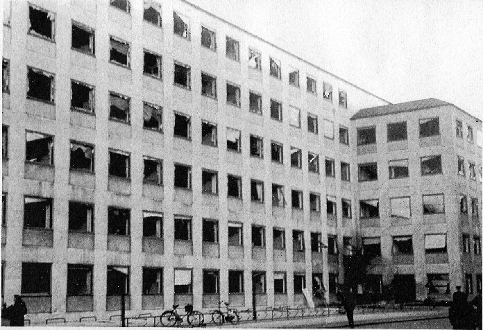 Aarhus Raadhus bombing, 1945.